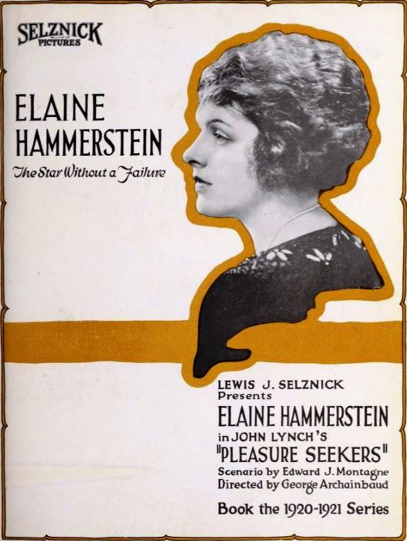 Advertisement for the American drama film The Pleasure Seekers (1920) with Elaine Hammerstein, from the insert after page 18 of the January 8, 1921 Exhibitors Herald.